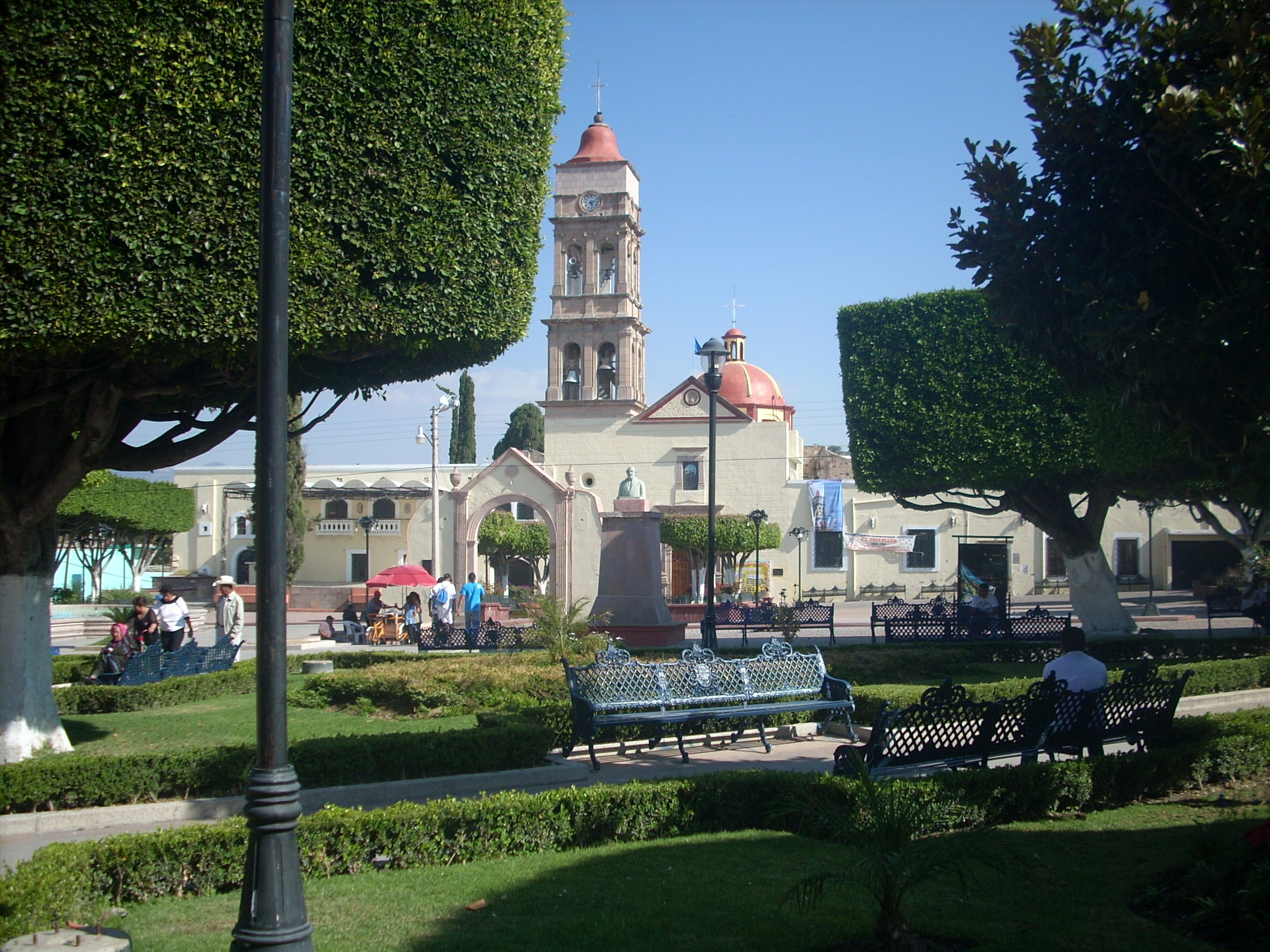 The church and main square of Tarandacuao, Guanajuato, Mexico